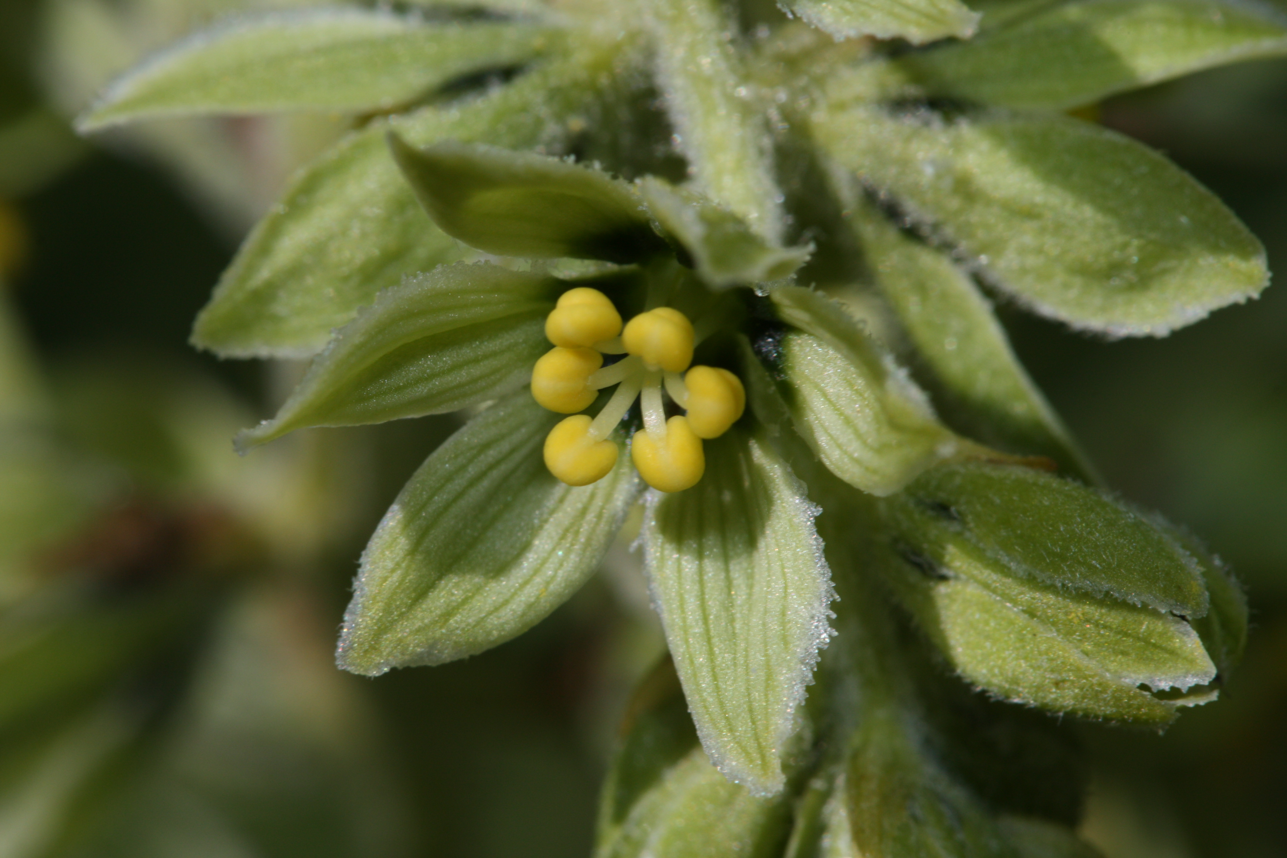 Green False Hellebore (American Wild Hellebore, Veratrum viride) flowers.